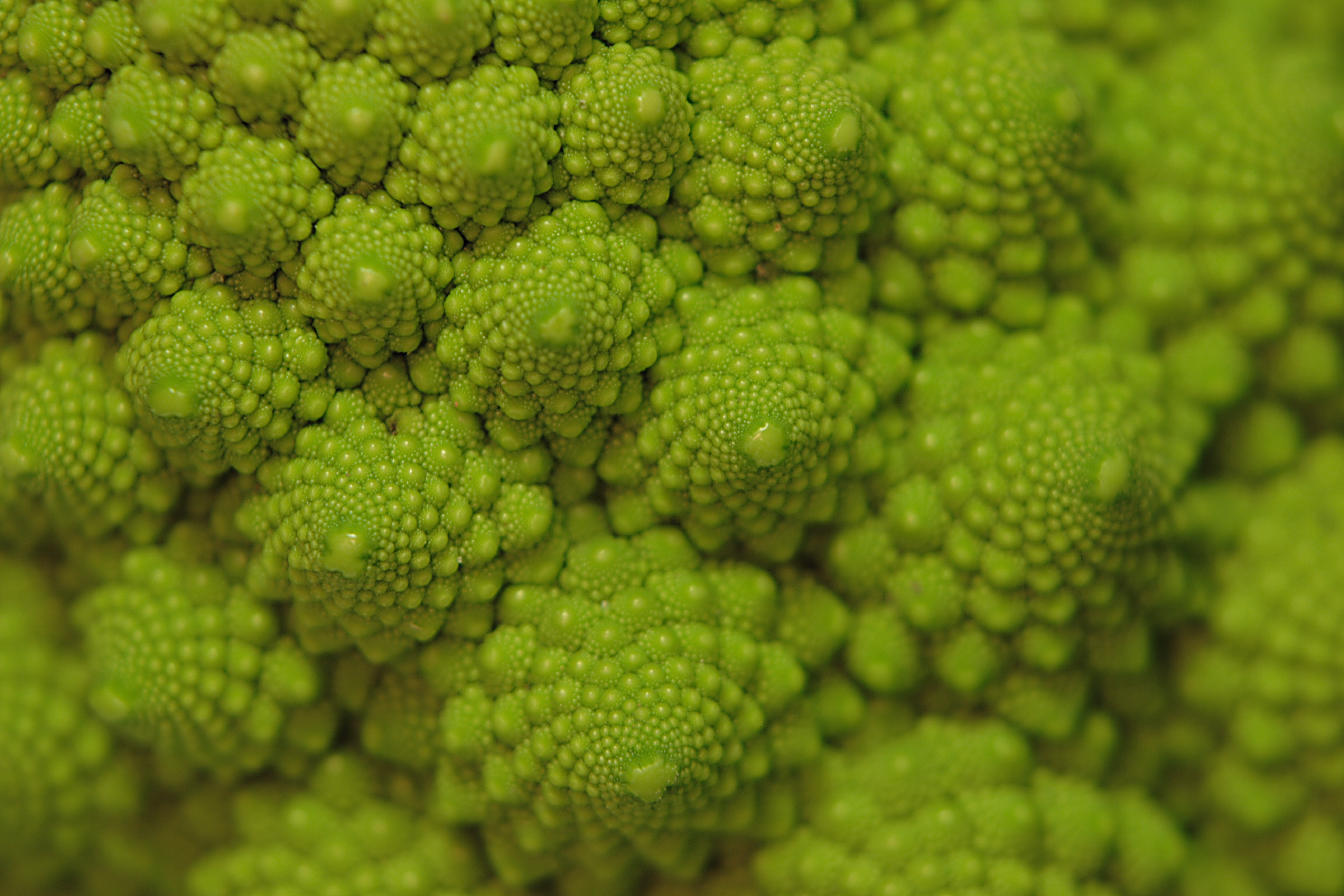 Detail of a vegetable called Romanescu, a clear example of fractal geometry in the natural world.